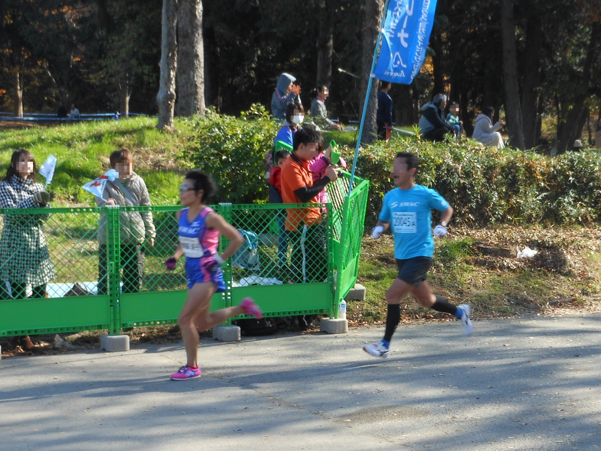 This is a last scene of Tsukuba marathon 10km. A woman runner in the left side of this photo is Kiyoko Shimahara.